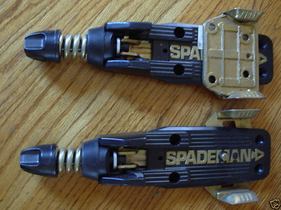 A pair of blue Spademan S4 bindings, one of which has the attachment plate inserted and locked in.